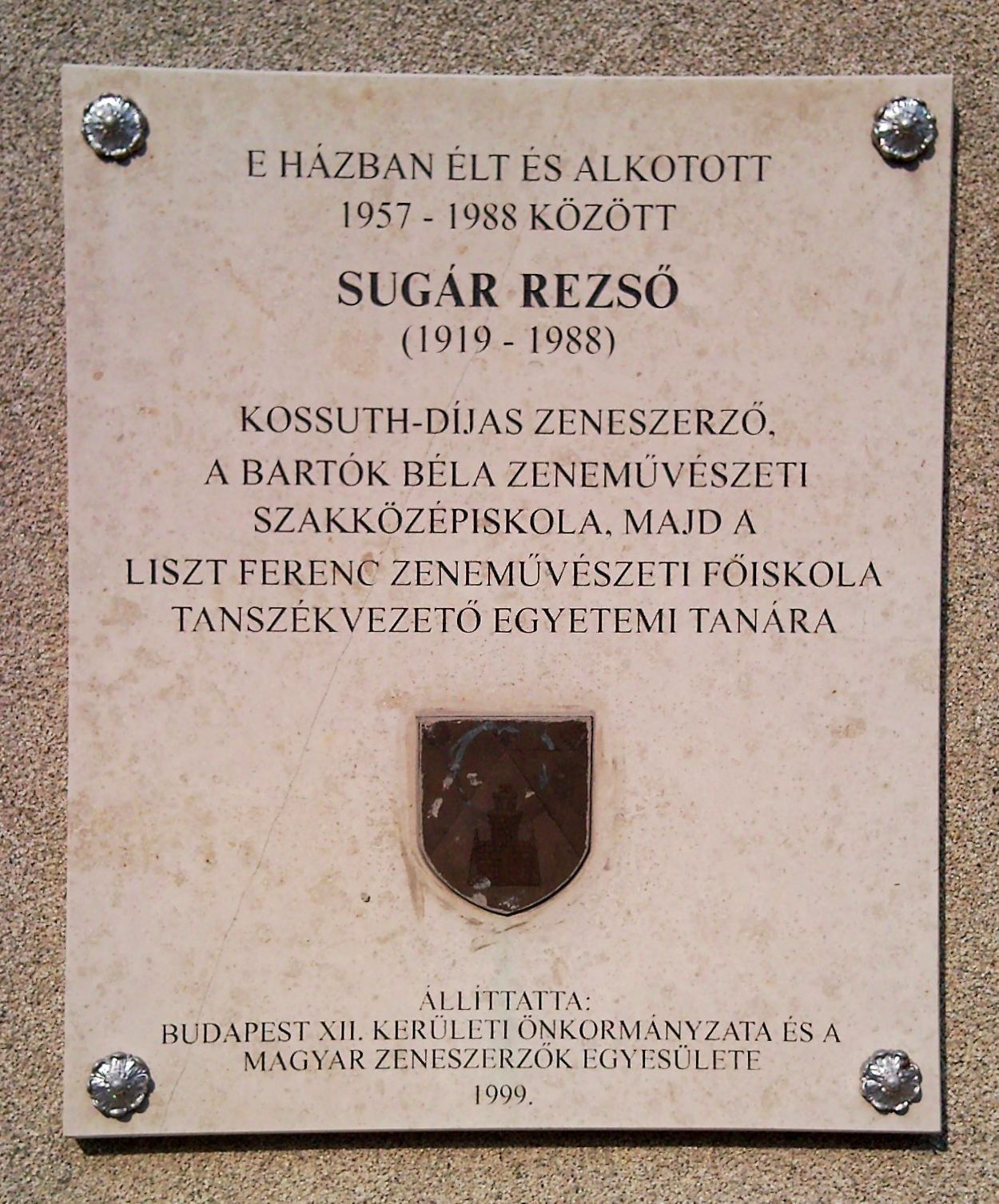 Commemorative plaque of Rezső Sugár, Budapest District XII, Zsolna Street No 37